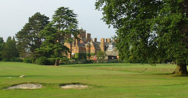 Cottesmore School, Buchan Hill, near Pease Pottage, West Sussex. A full boarding co-educational prep school (the only one in the UK - according to their website A couple of sand traps of the Cottesmore Country Club golf course can also be seen.